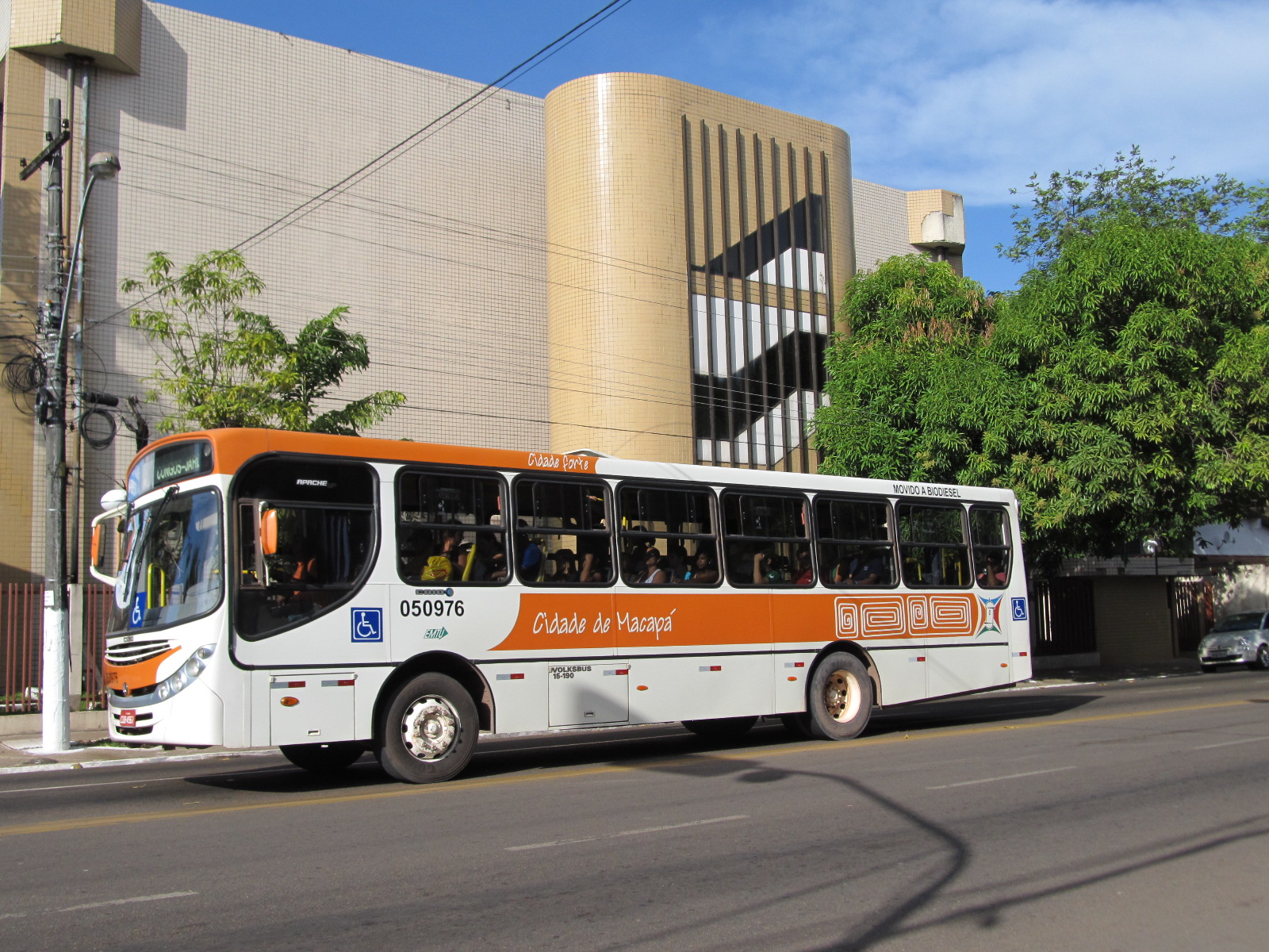 CAIO Apache bus (#050976) with Volkswagen Volksbus 15.190 EOD chassis in Macapá city, Amapá state, Brazil (5). Cidade de Macapá.